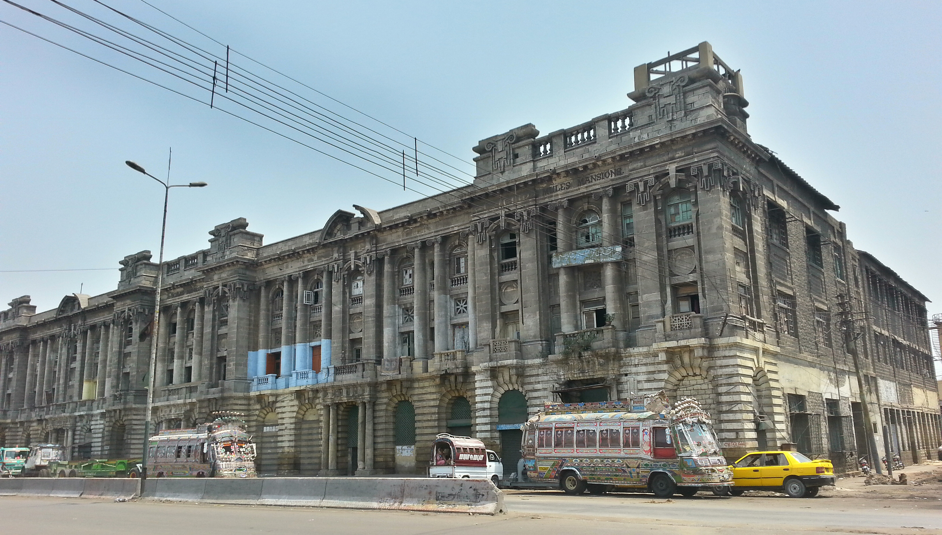 Built in 1917, Mules Mansion is located in Keamari, Karachi, Sindh.